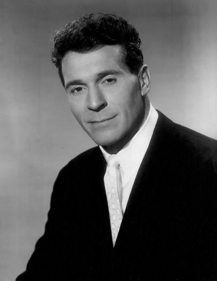 Photo portrait of Jack LaLanne in 1961.